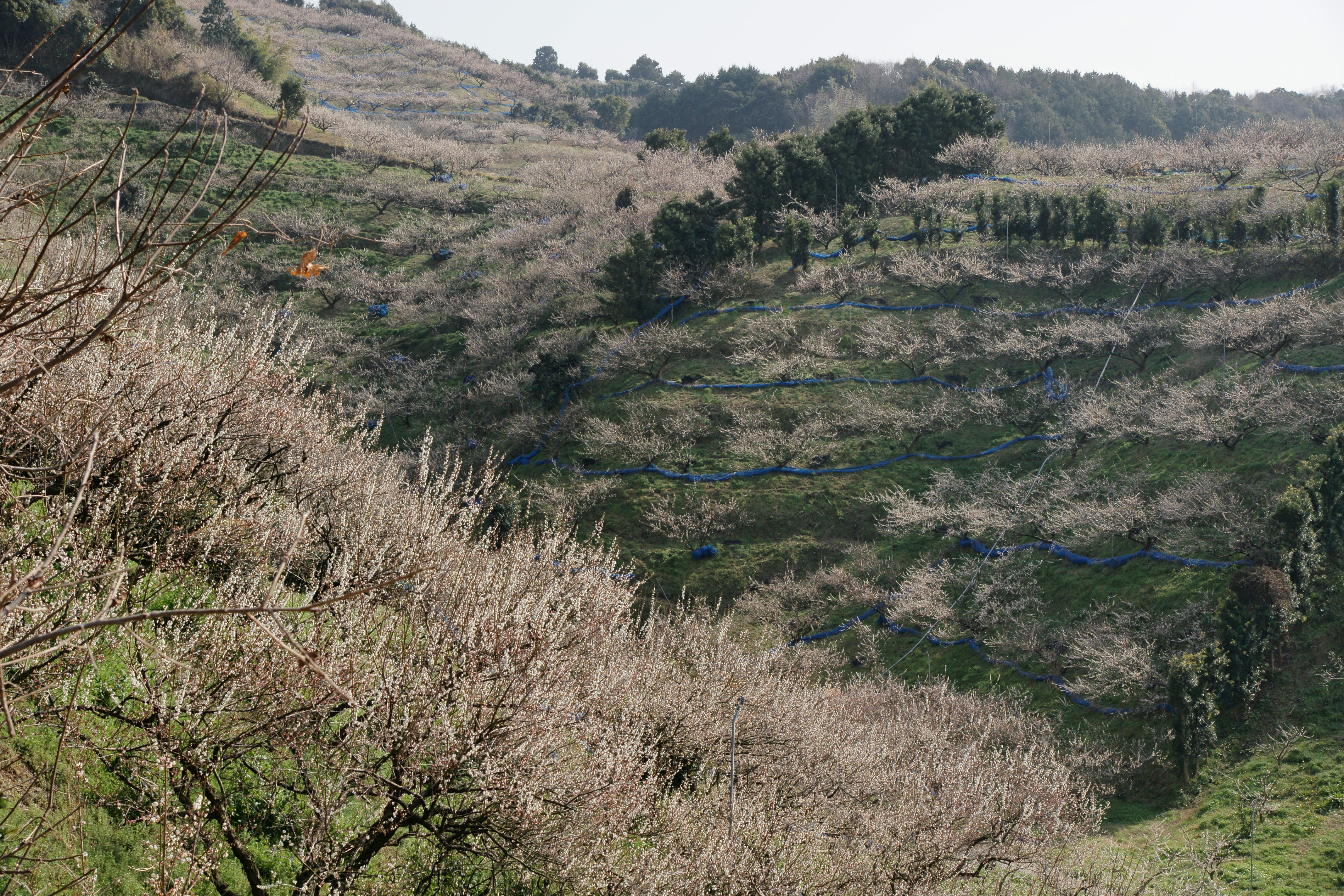 Minabe Bairin, Minabe, Wakayama prefecture, Japan